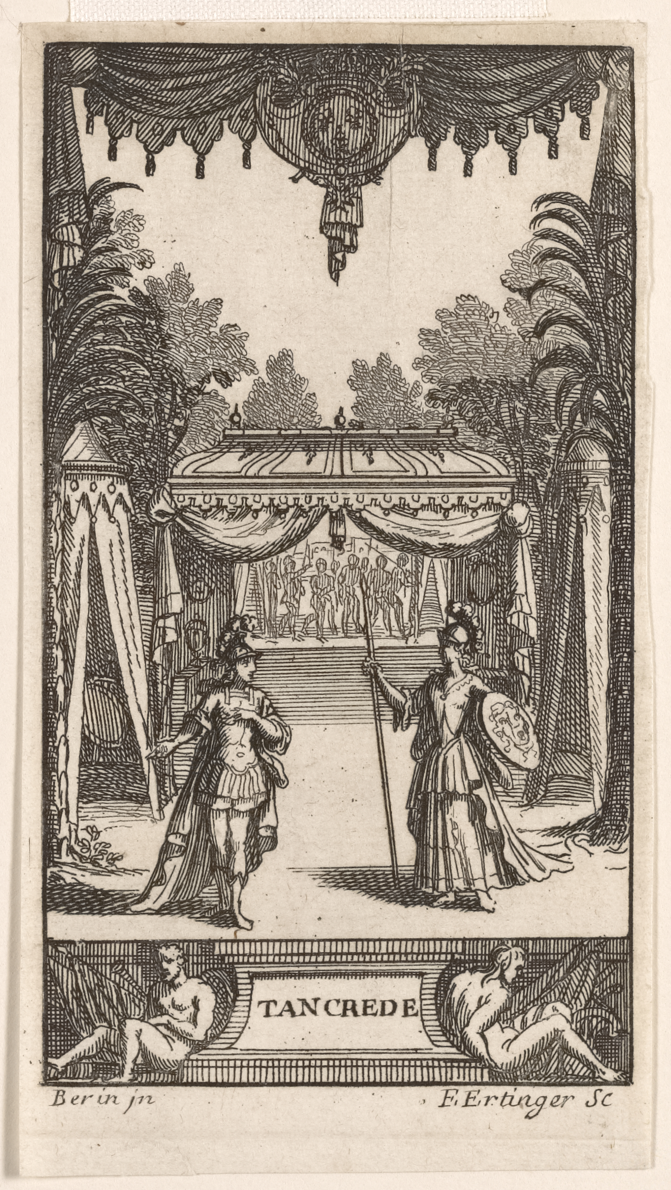 A scene from André Campra's opera Tancrède, premiered at the Paris Opera, November 7, 1702. Setting for act II, depicting the camp of Tancrède.